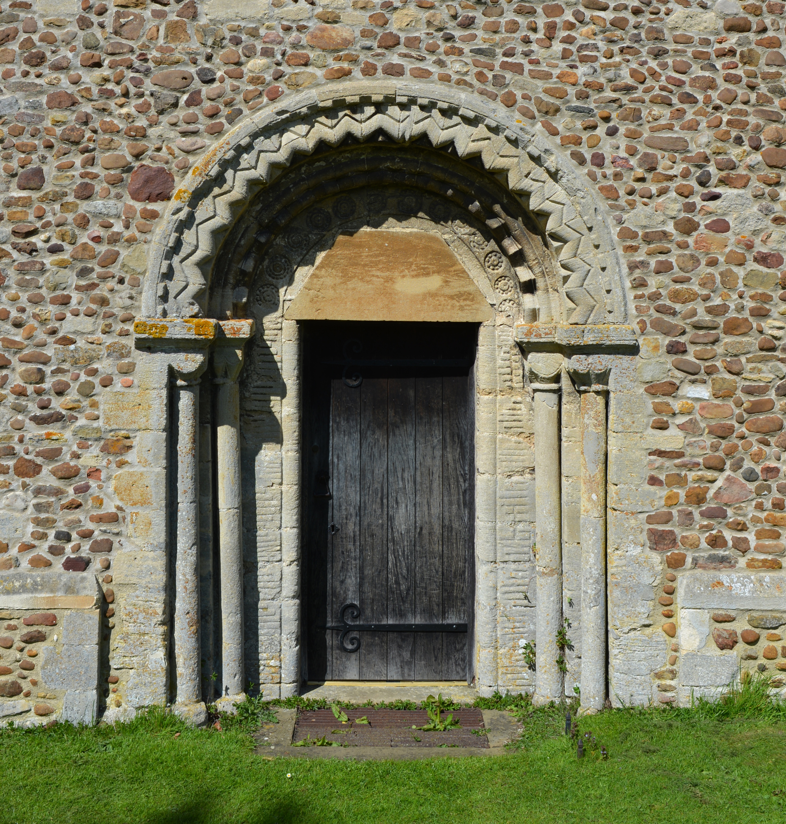 Mid C12 doorway